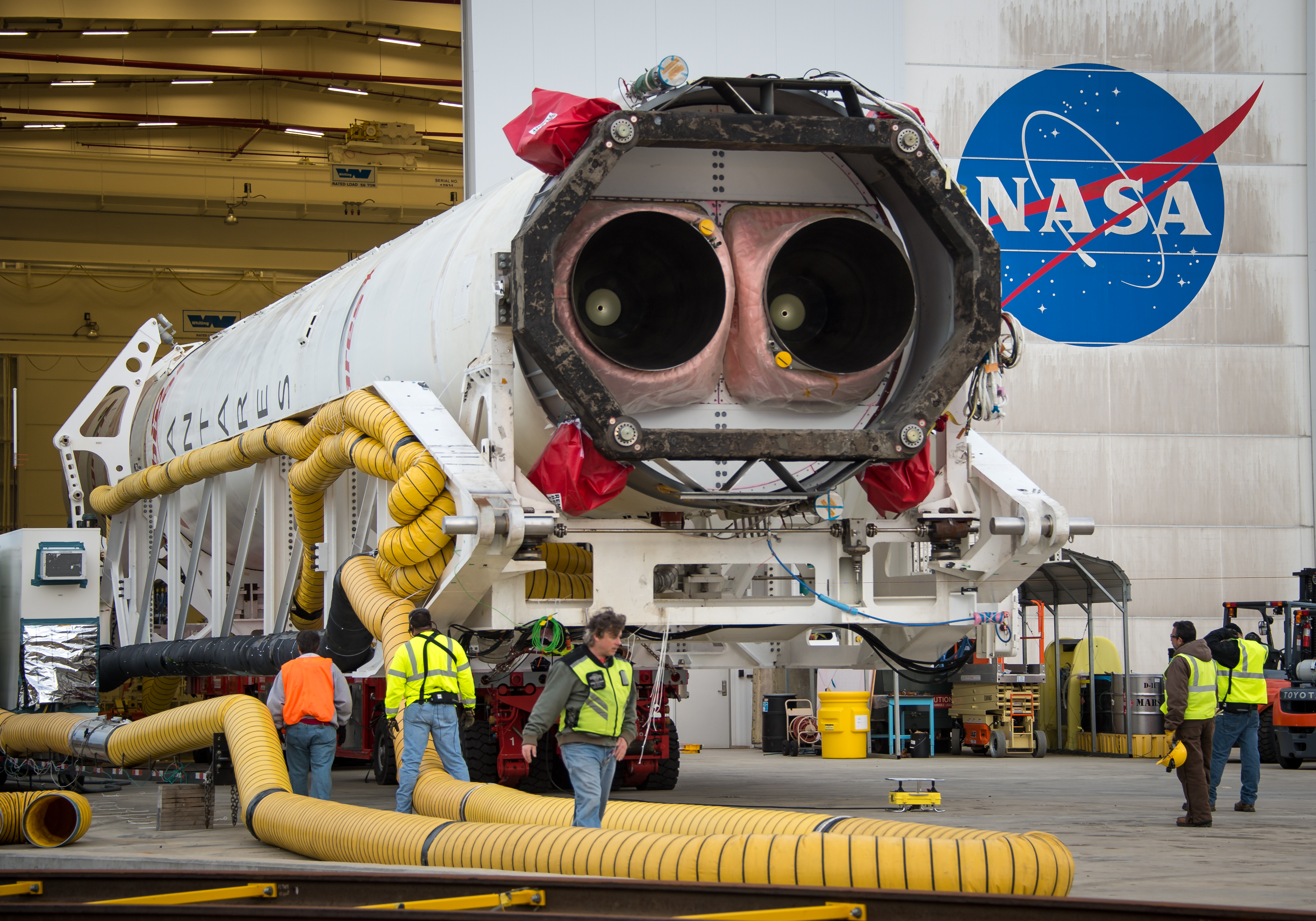 An Orbital Sciences Corporation Antares rocket is seen as it is rolled out to launch Pad-0A at NASA's Wallops Flight Facility, Sunday, January 5, 2014 in advance of a planned Wednesday, Jan. 8th, 1:32 p.m. EST launch, Wallops Island, VA. The Antares will launch a Cygnus spacecraft on a cargo resupply mission to the International Space Station. The Orbital-1 mission is Orbital Sciences' first contracted cargo delivery flight to the space station for NASA. Among the cargo aboard Cygnus set to launch to the space station are science experiments, crew provisions, spare parts and other hardware.